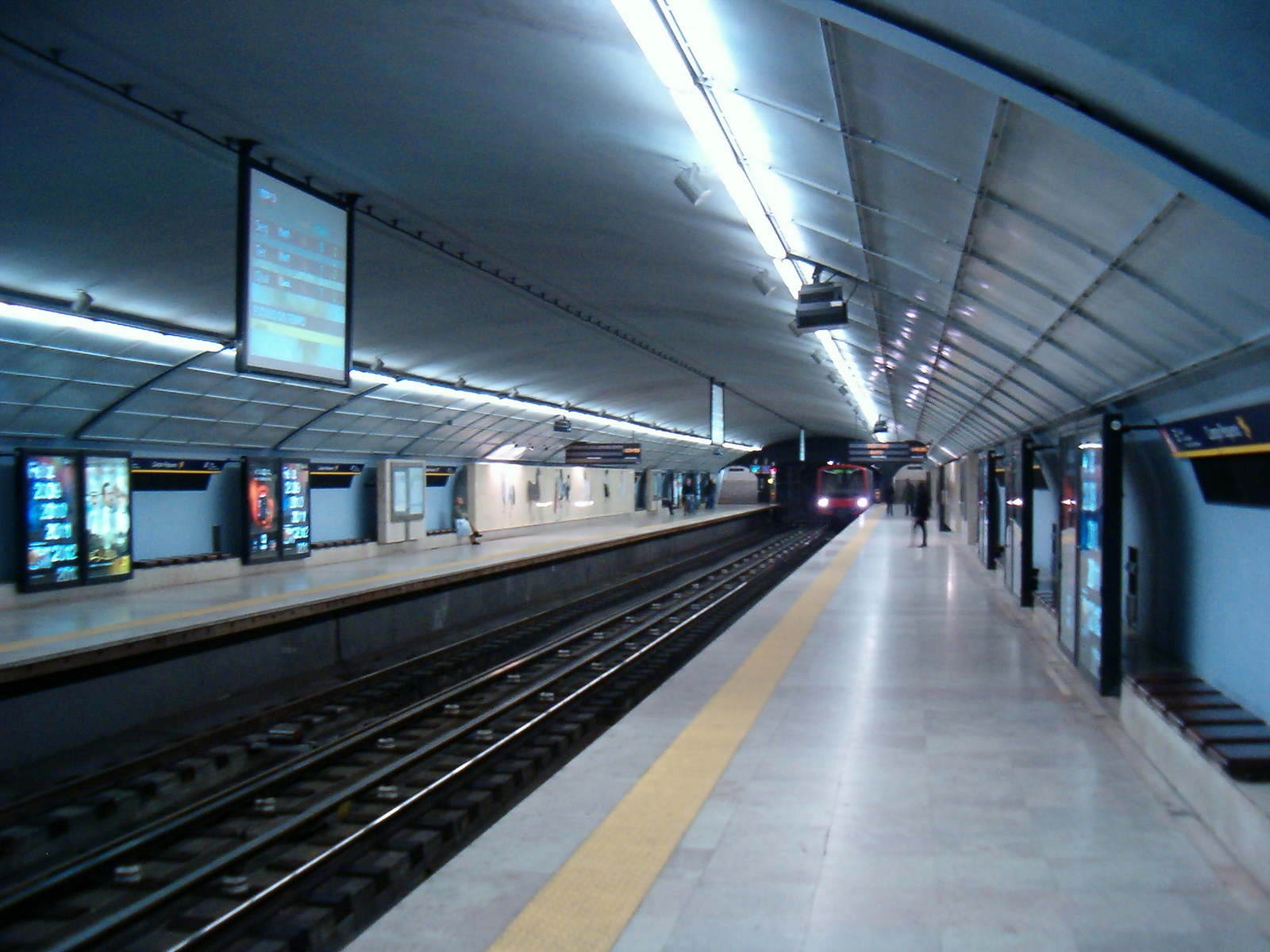 Metro station Campo Pequeno (Lisboa)